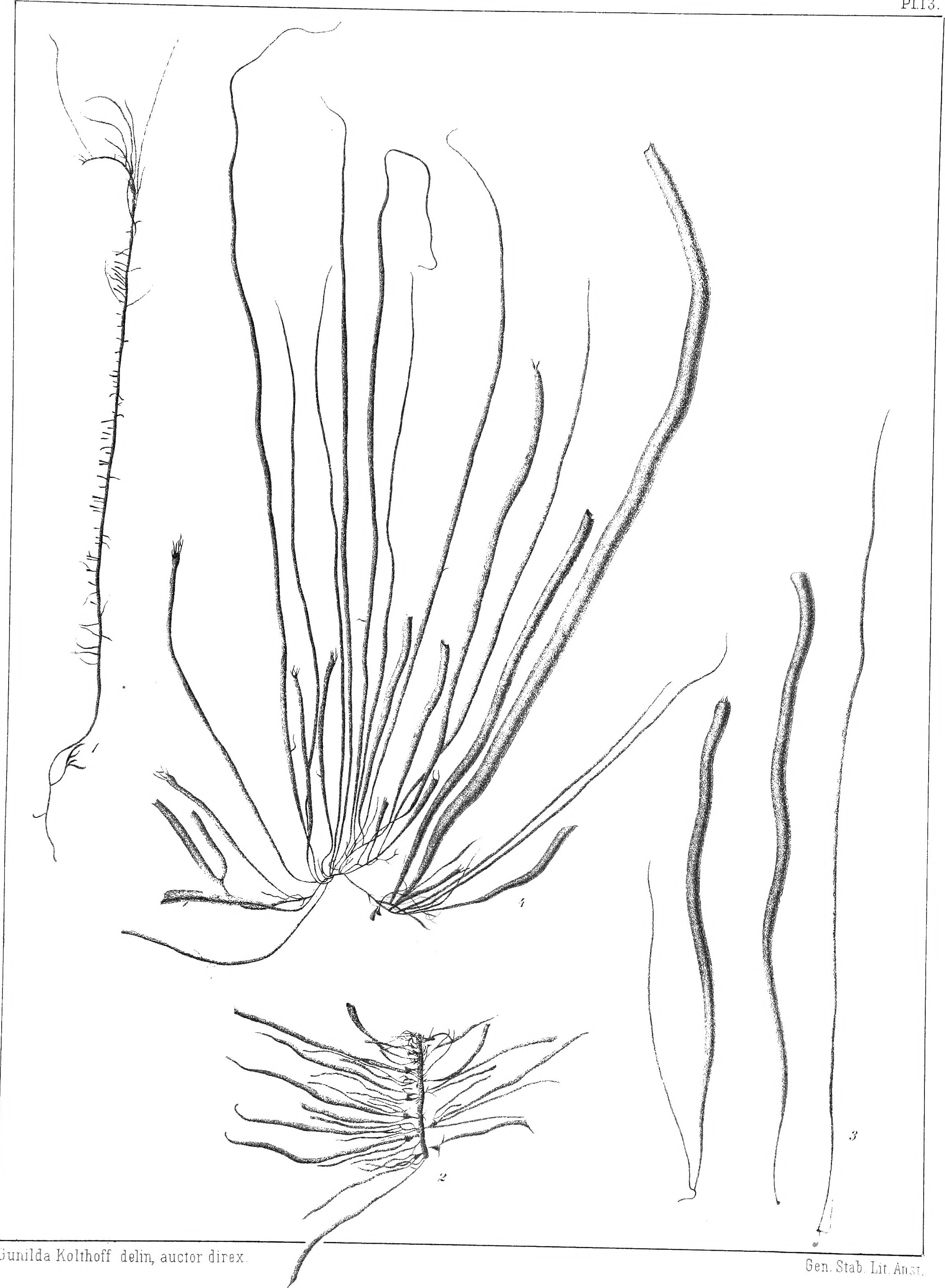 Title: The algae of the Arctic Sea, a survey of the species, together with an exposition of the general characters and the development of the flora Year: 1883 (1880s) Authors: Kjellman, F. R. (Frans Reinhold), 1846-1907 Subjects: Algae Publisher: Stockholm, Norstedt Text Appearing Before Image: P1.13. Text Appearing After Image: (jurulda Kolthoff delin, auctor direx 1-2 Halosaccioiirameiitaceuiiif.rol)usta. 3 HalosacGionramentace-amf.suljsiinpl 4 HalosaccionrameTitaceiiTiif.ramosa. Gen. Stal. Lit, An;,!, ex.